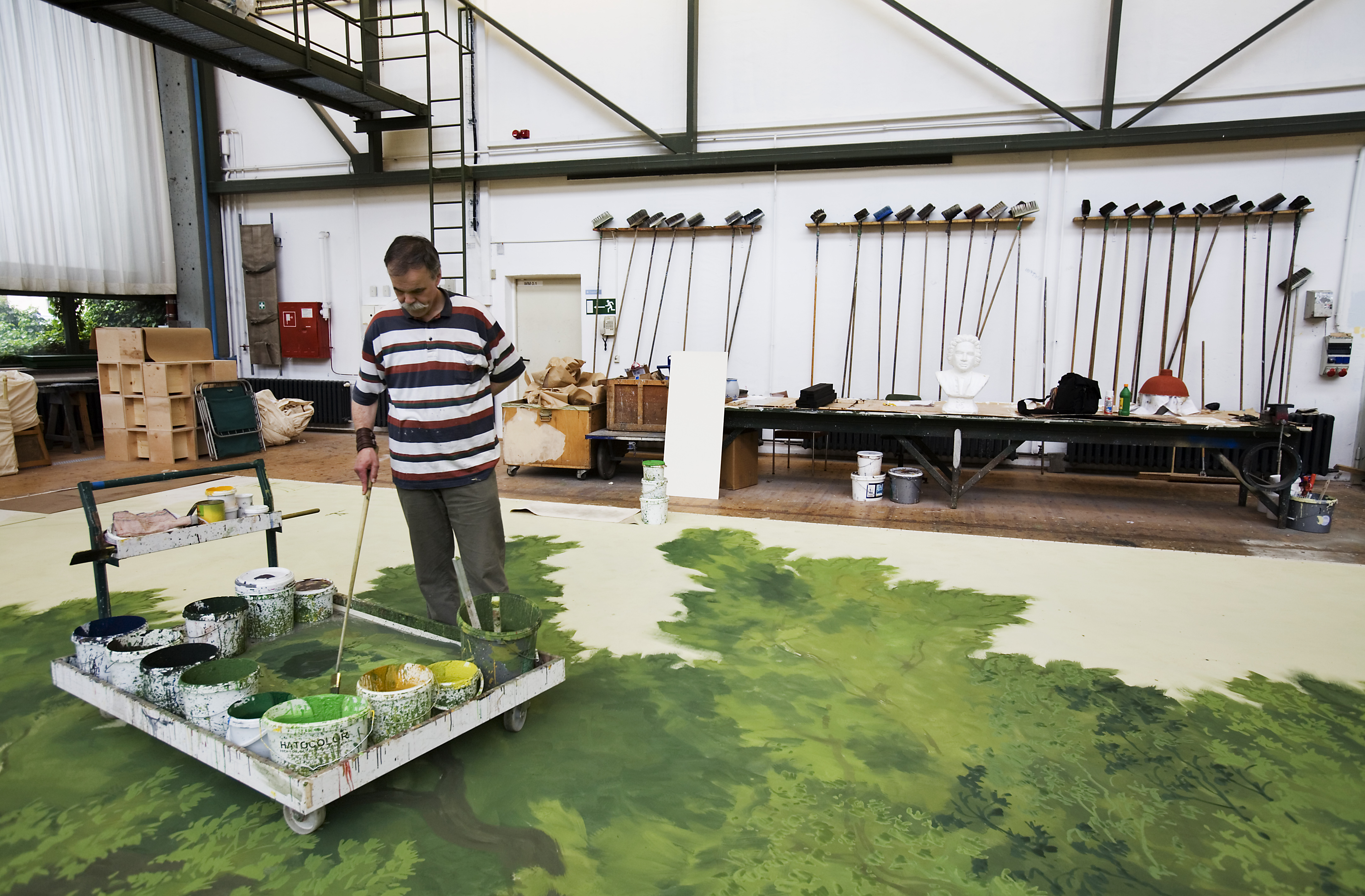 Scenography, set construction and theatrical scenery